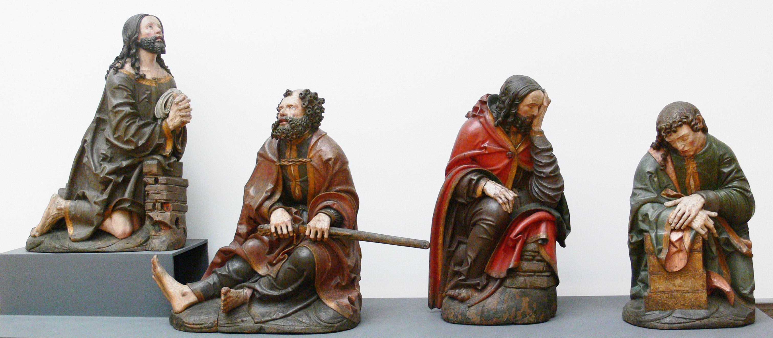 Master of Rabenden: Christ on the Mount of Olives (with the apostles Peter, James the Greater, John); c. 1515, limewood, old colours. Skulpturensammlung (inv. no. 3025; acquired in 1906), Bode-Museum Berlin.